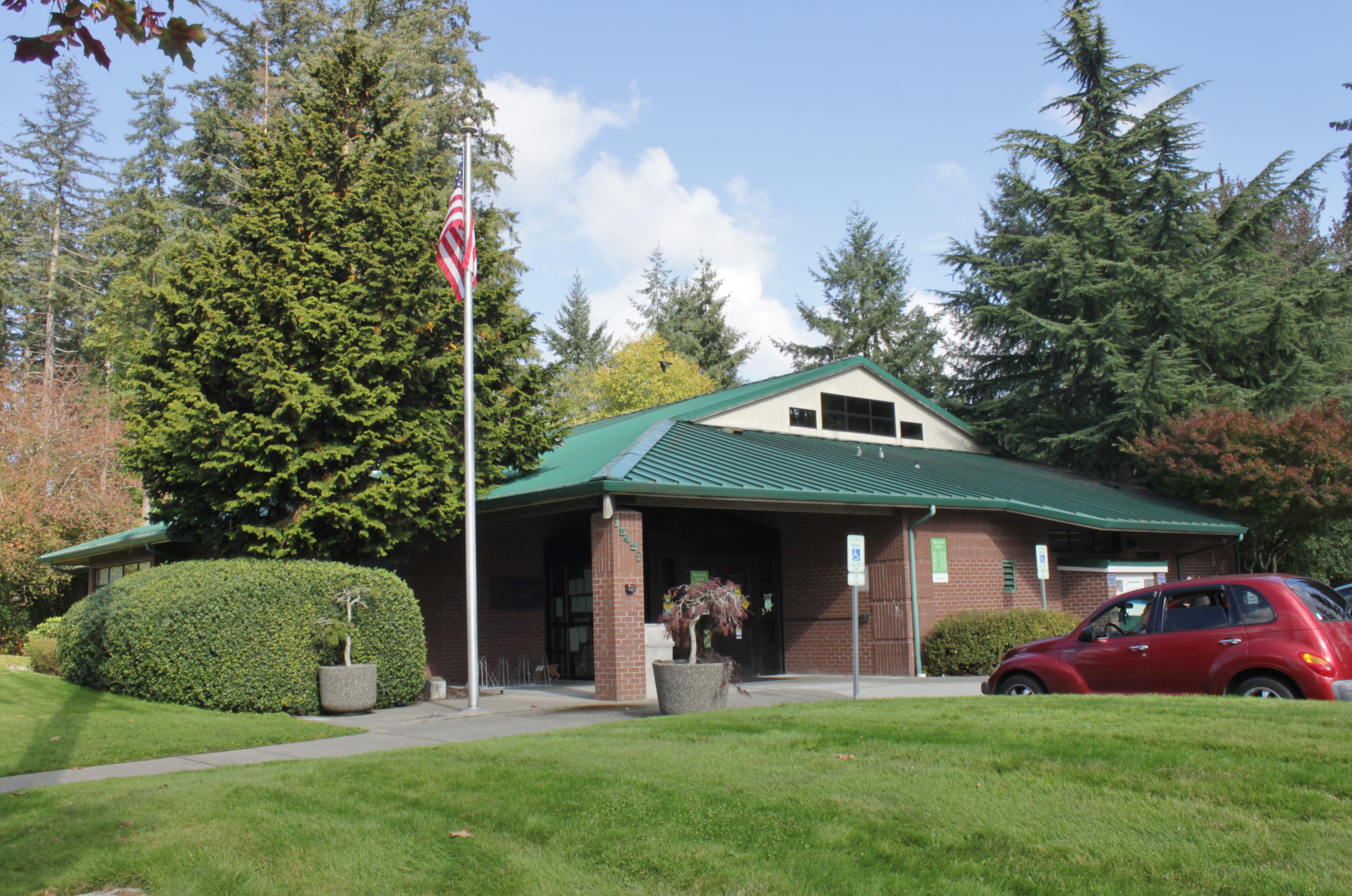 The public library of Mill Creek, Washington, operated by Sno-Isle Libraries.